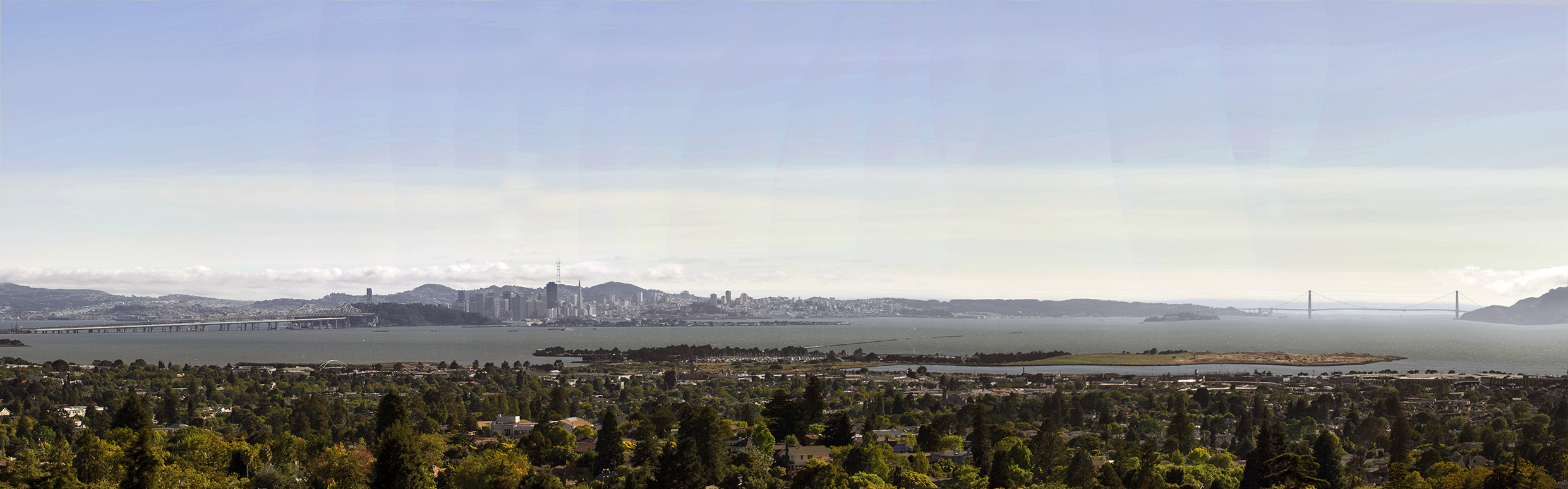 san francisco from indian rock, in the Berkeley Hills. foreground is Berkeley, beyond that, the Berkeley Marina. visible are the eastern span of the Bay bridge, and golden gate bridge